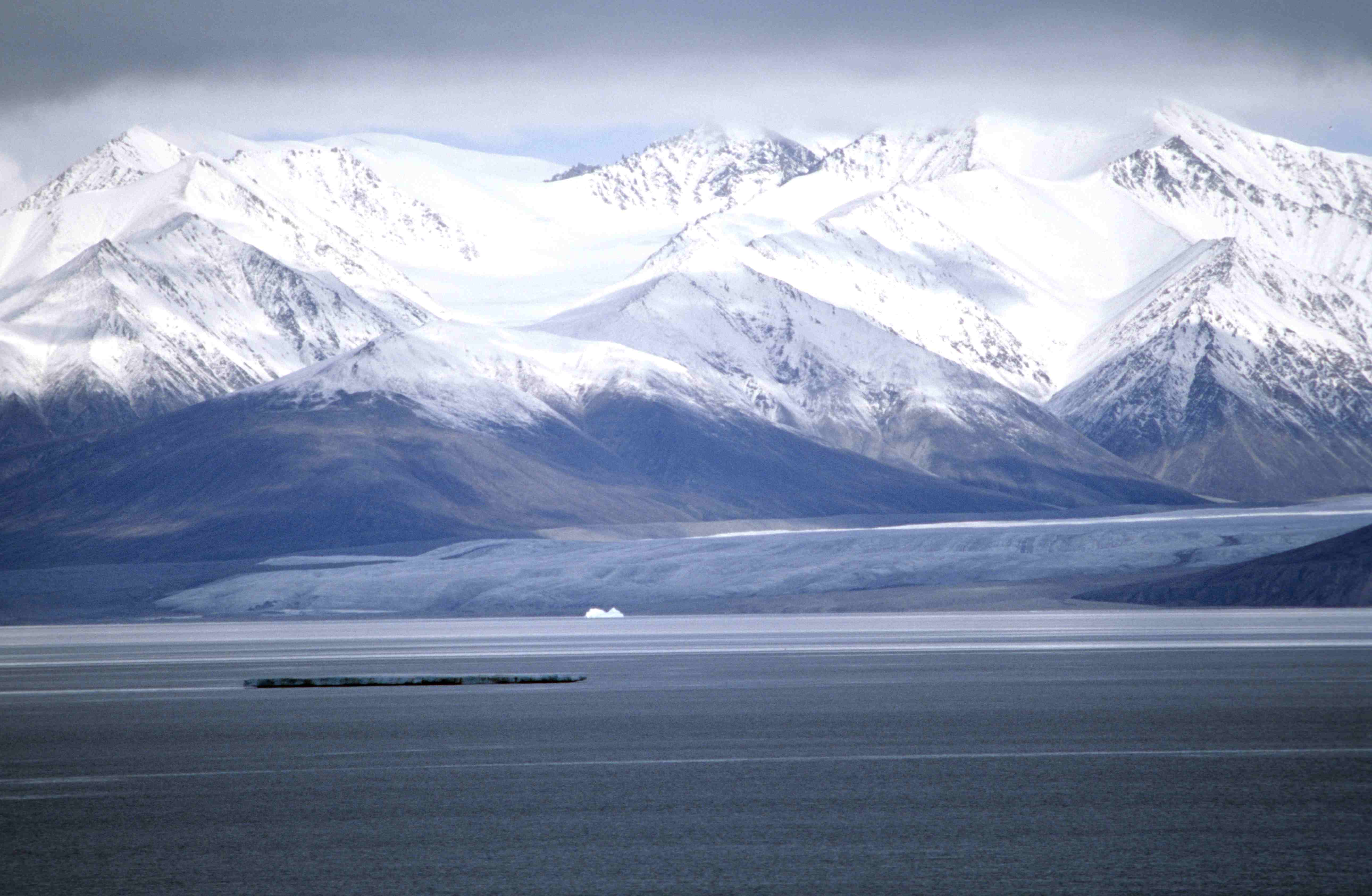 Sirmilik Glacier (southern coast of Bylot Island at Pond Inlet), Sirmilik National Park, Canada